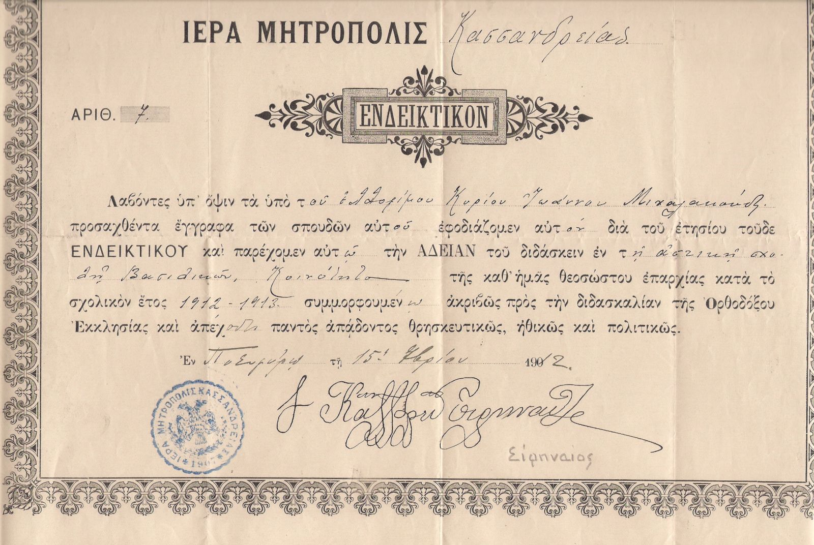 Document of the Kassandra Metropoly 1902